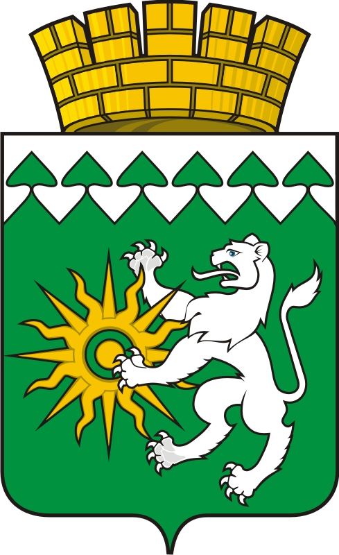 Berezovsky (Sverdlovsk oblast), coat of arms